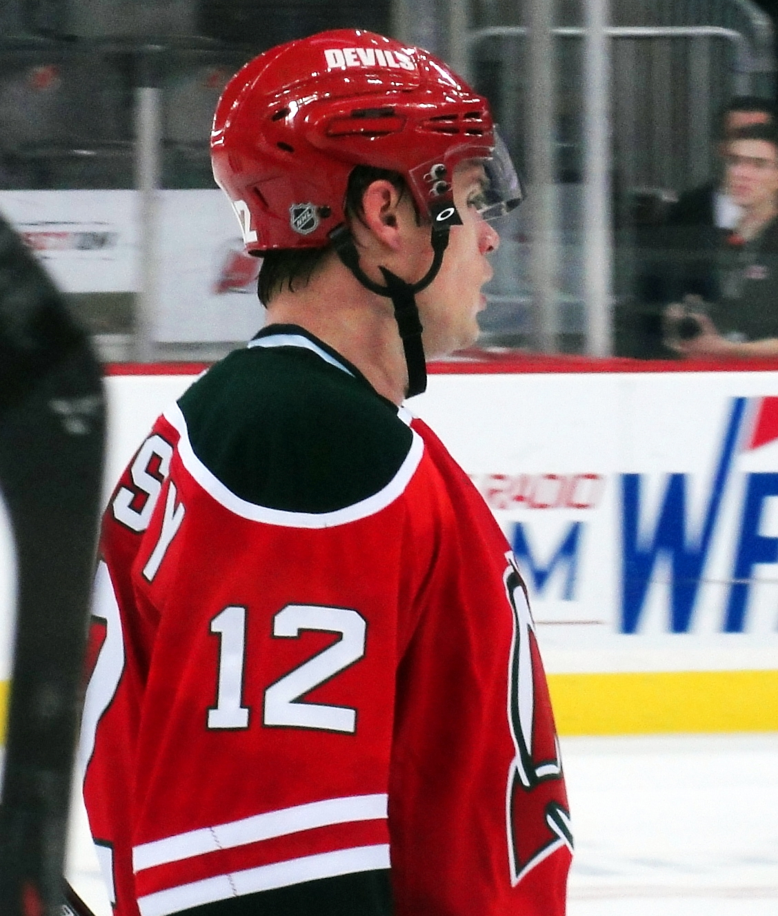 New Jersey Devils forward Alexei Ponikarovsky skates against the Pittsburgh Penguins, March 17, 2012 at Prudential Center in Newark, NJ.